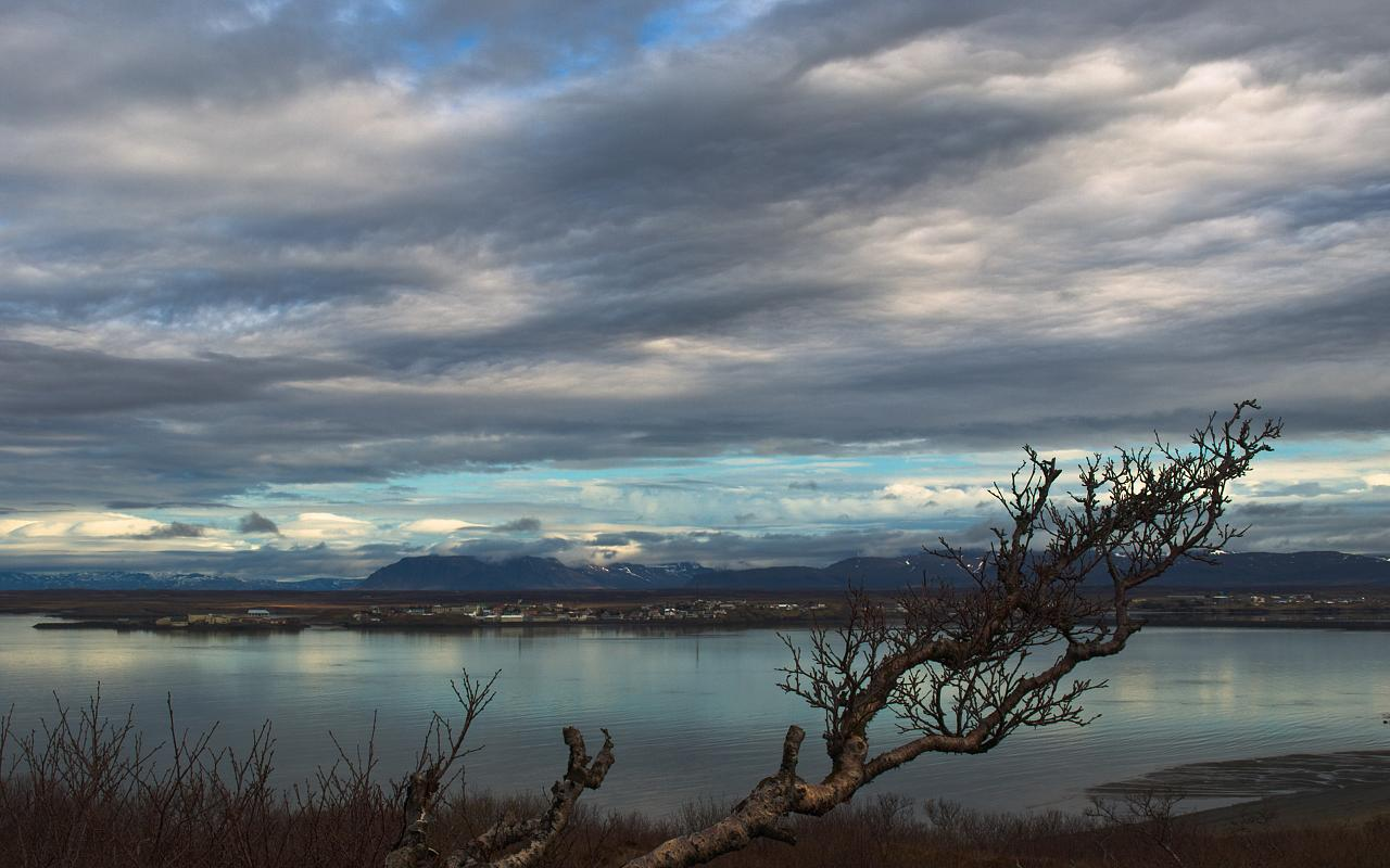 Séð yfir fjörðinn til Borgarness. The town of Borgarnes from across the fjord.